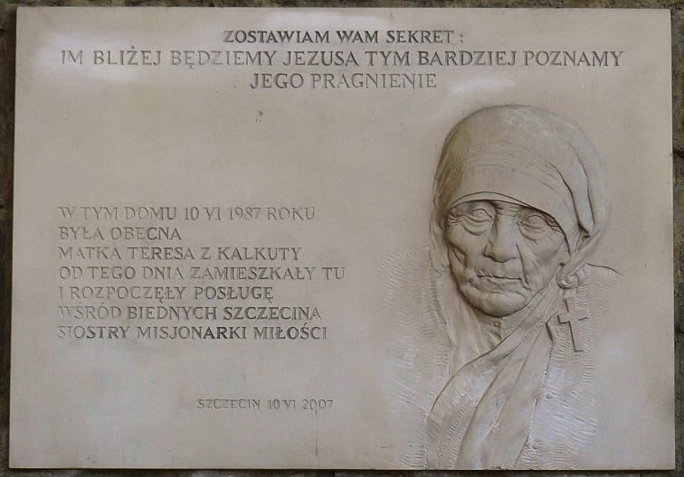 Table of Mother Teresa from Kolkata in Szczecin Poland.